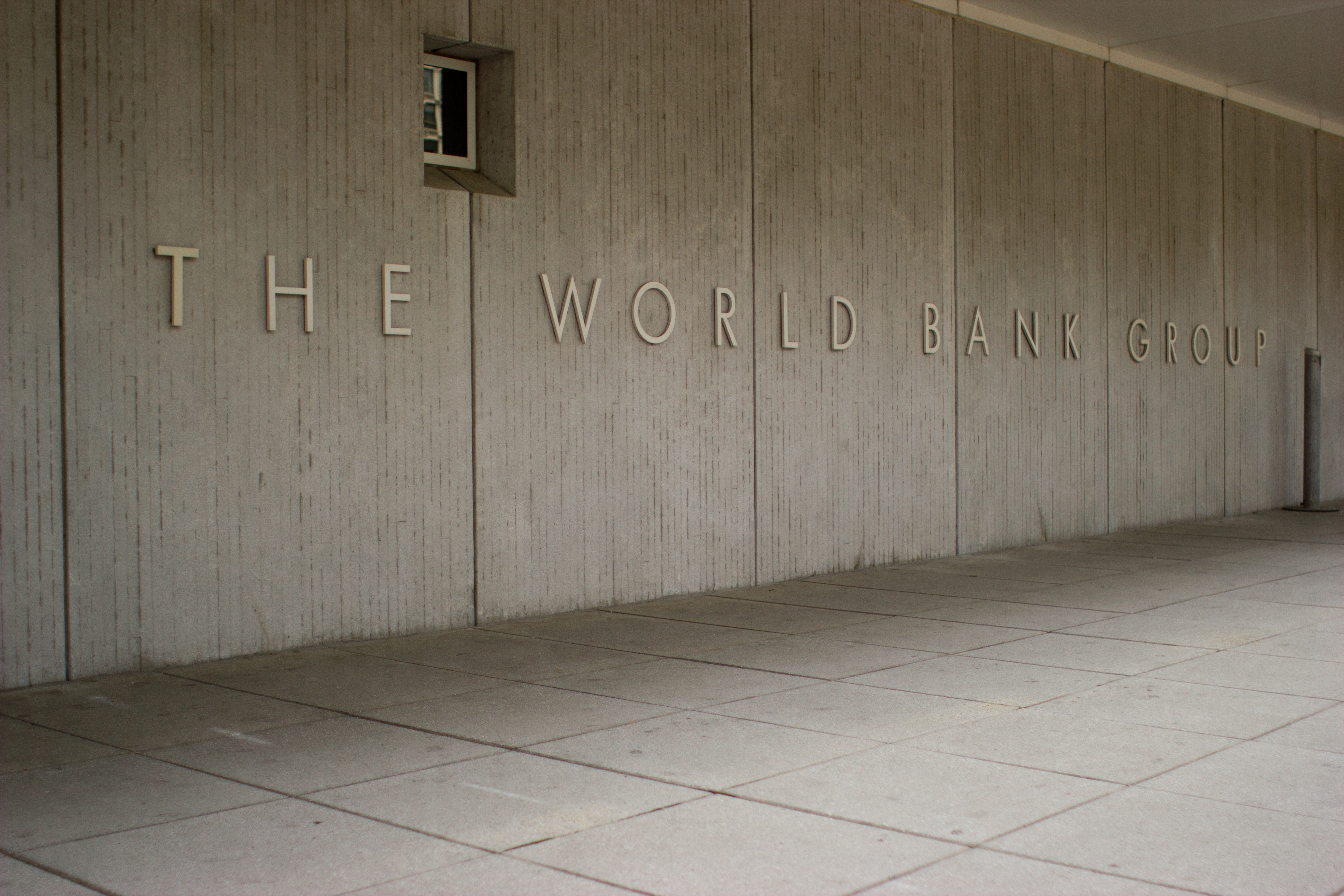 The World Bank Group Headquarters sign — in Washington, D.C. Note: the U.N. World Bank is an organization under/within the United Nations World Bank Group.